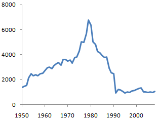 Iraq GDP per capita 1950-2008. Source: Angus Maddison, February 2010